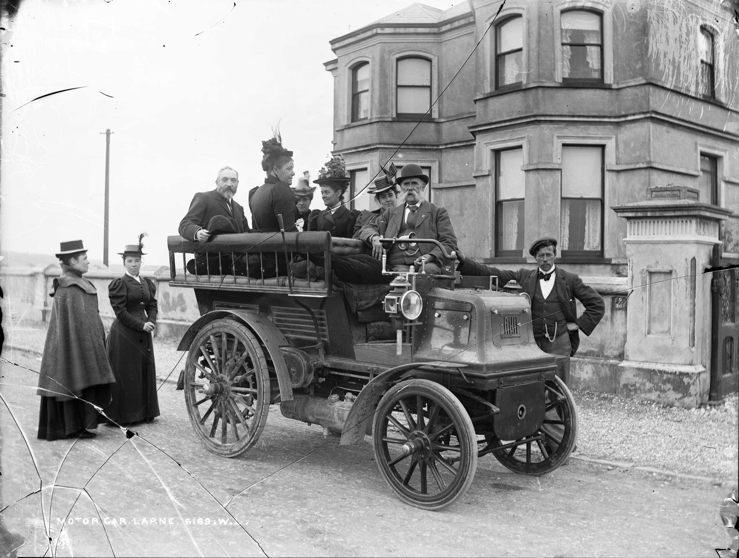 Motor Car at Larne Beautiful vehicle at Larne, Co. Antrim. Thanks to Niall McAuley, we now have an exact location for this photo on Chaine Memorial Road, right opposite the Chaine Memorial, a lighthouse replica of an Irish Round Tower erected in memory of James Chaine, a former M.P. for Larne... One of our NLI Facebook people has identified the gentleman with the impressive moustache in the front seat as Larne hotelier, Henry McNeill, and also reports that this vehicle was said to be Larne's first motor vehicle. We came across McNeill's Hotel in Larne before... Following much discussion below on the make and model of the car, the final word has gone to Bob Montgomery 2012, and this is definitely a Daimler Wagonette, circa 1899/1900. Date: 1899 NLI Ref.: L_ROY_06169